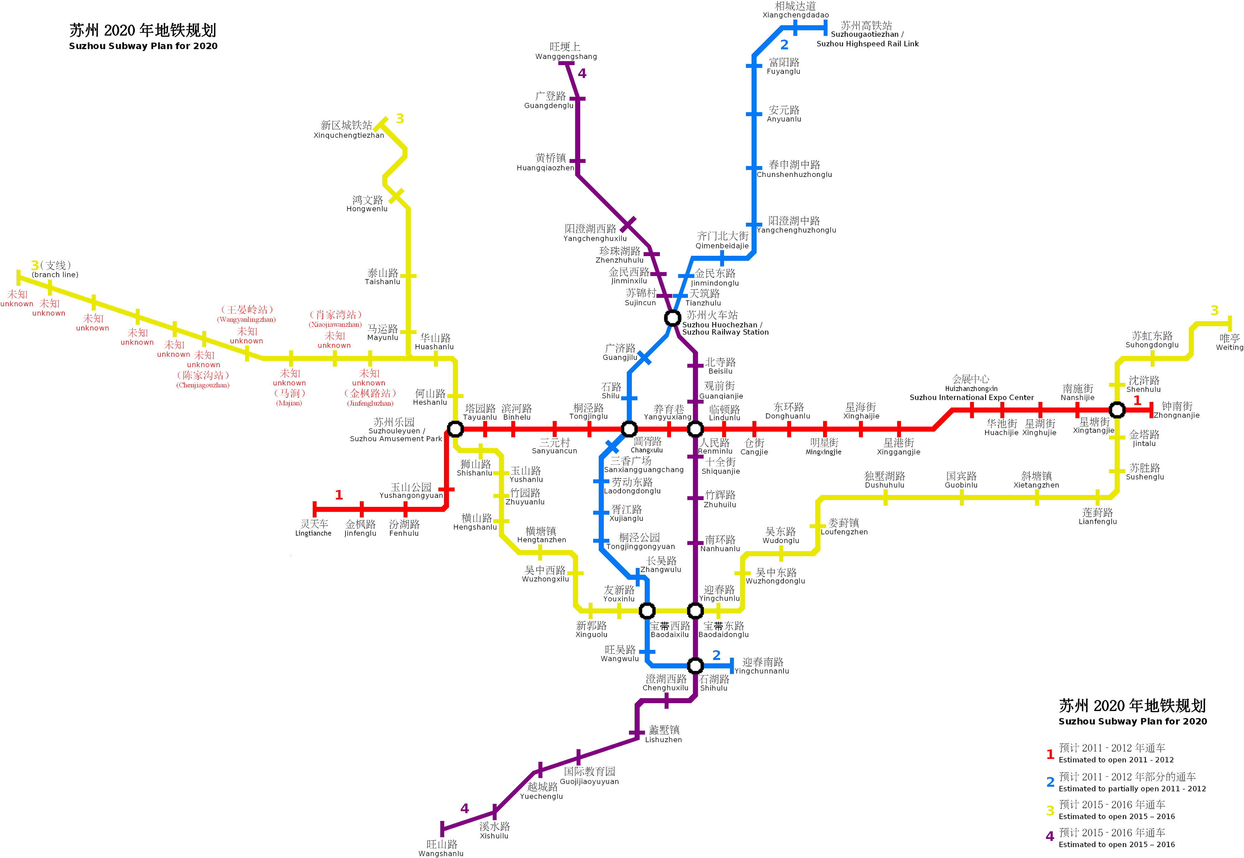 Map of the intended future Suzhou Subway layout.